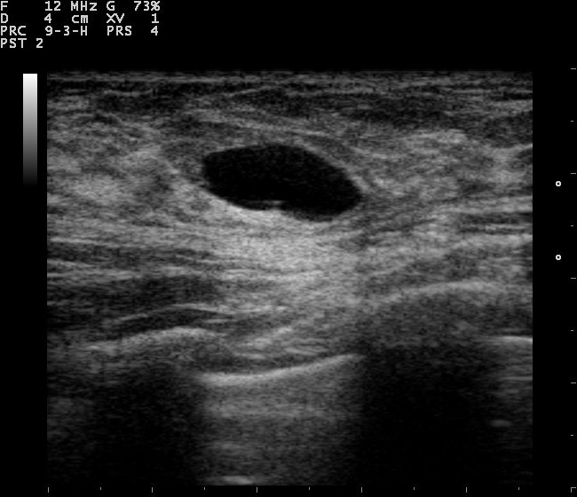 Ultrasound images of simple breast cysts